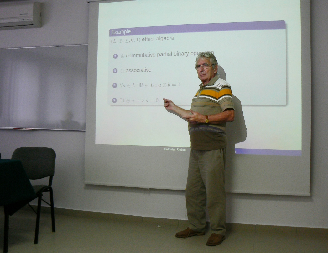 Presentation of Beloslav Riečan at IWIFSGN'2008, Warsaw, Poland